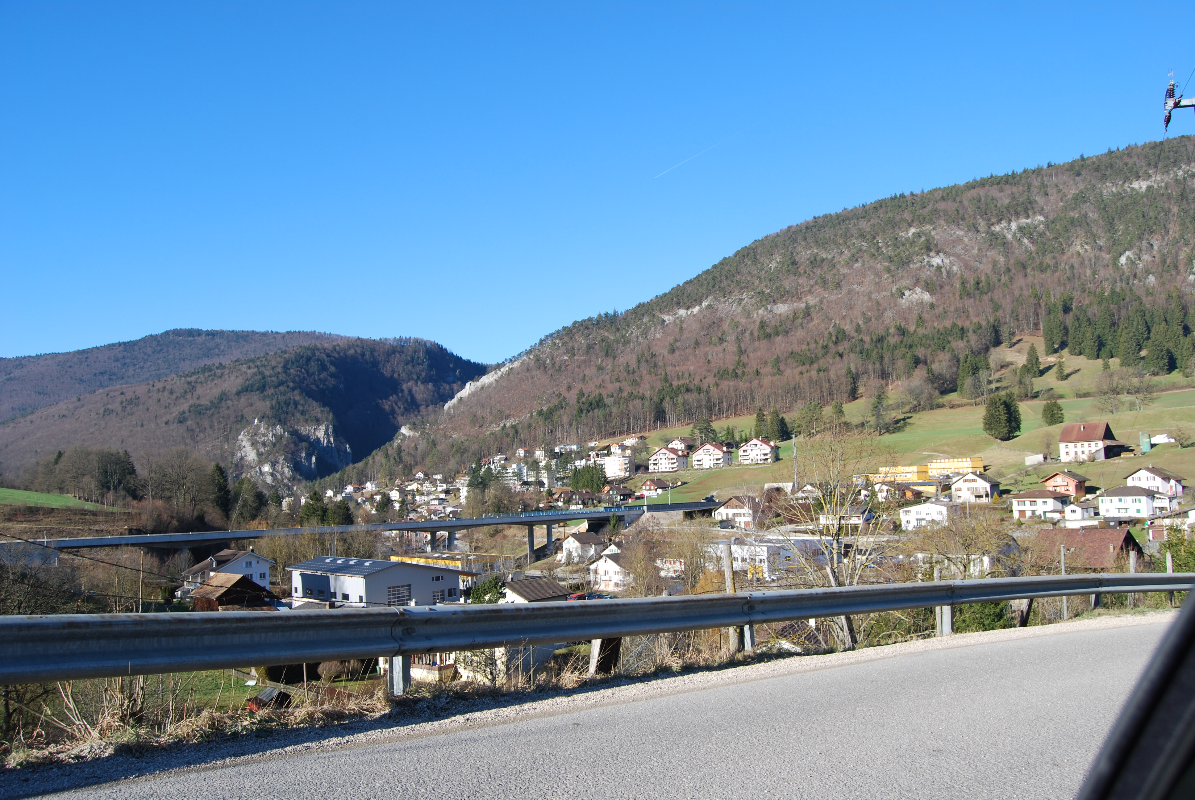 View from Eschert to Moutier and the bridge of the Swiss Highway A16, canton of Bern, Switzerland